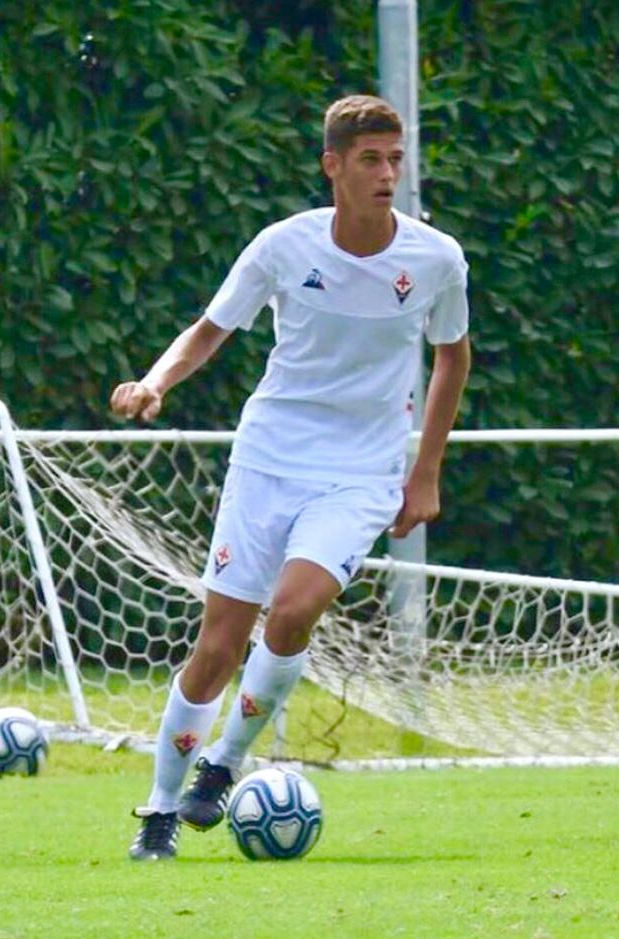 Dimo Nikolaev Krastev (Born 10 February 2003) is a Bulgarian footballer who plays as a midfielder for Fiorentina U19